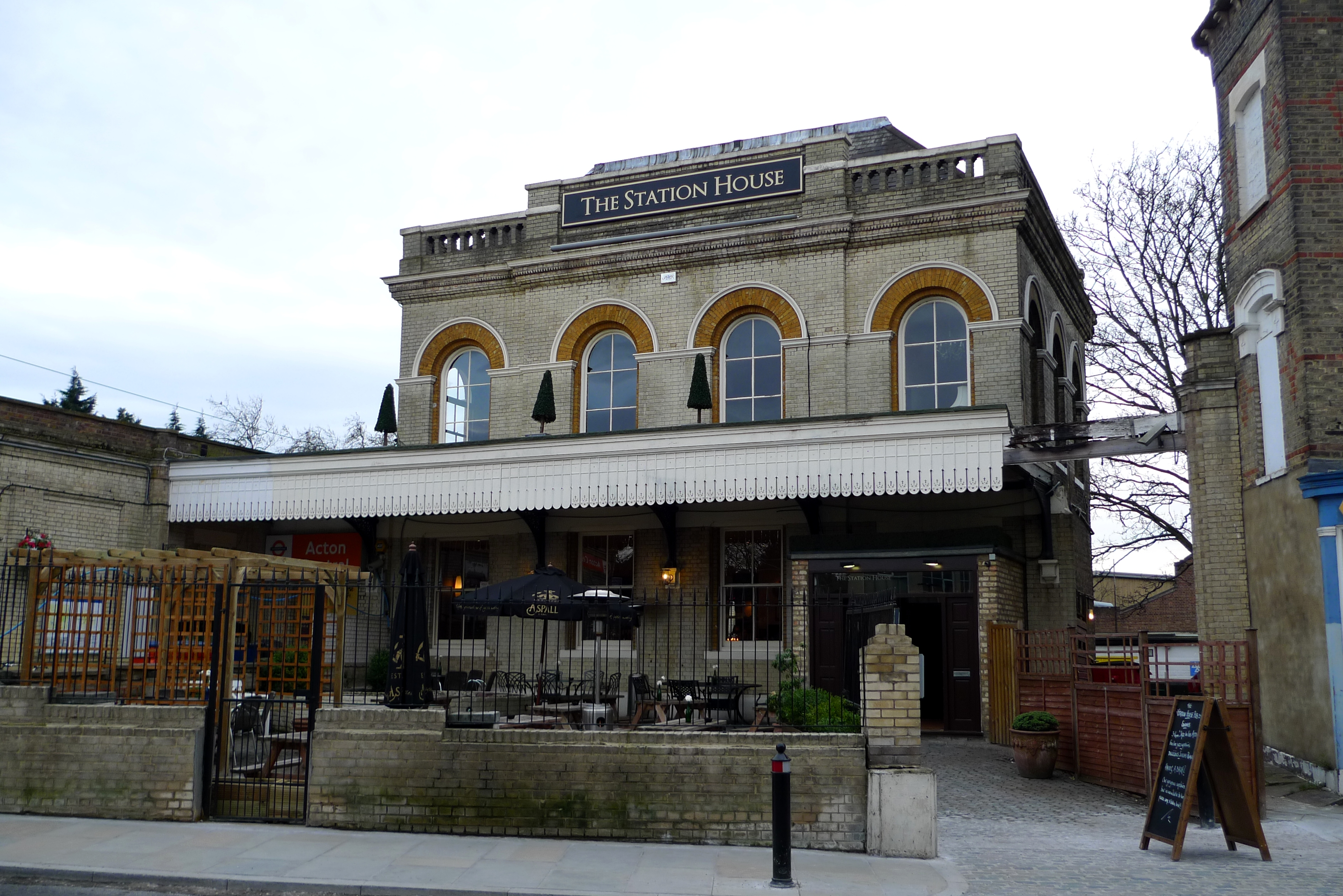 This grand building was once a ticket hall for Acton Central station, but the station has clearly reduced in aspiration and this building is now a pub. Address: Station Buildings, Churchfield Road. Former Name(s): The Churchfield; Platform One; Central Bar. Links: Fancyapint Beer in the Evening (The Churchfield)